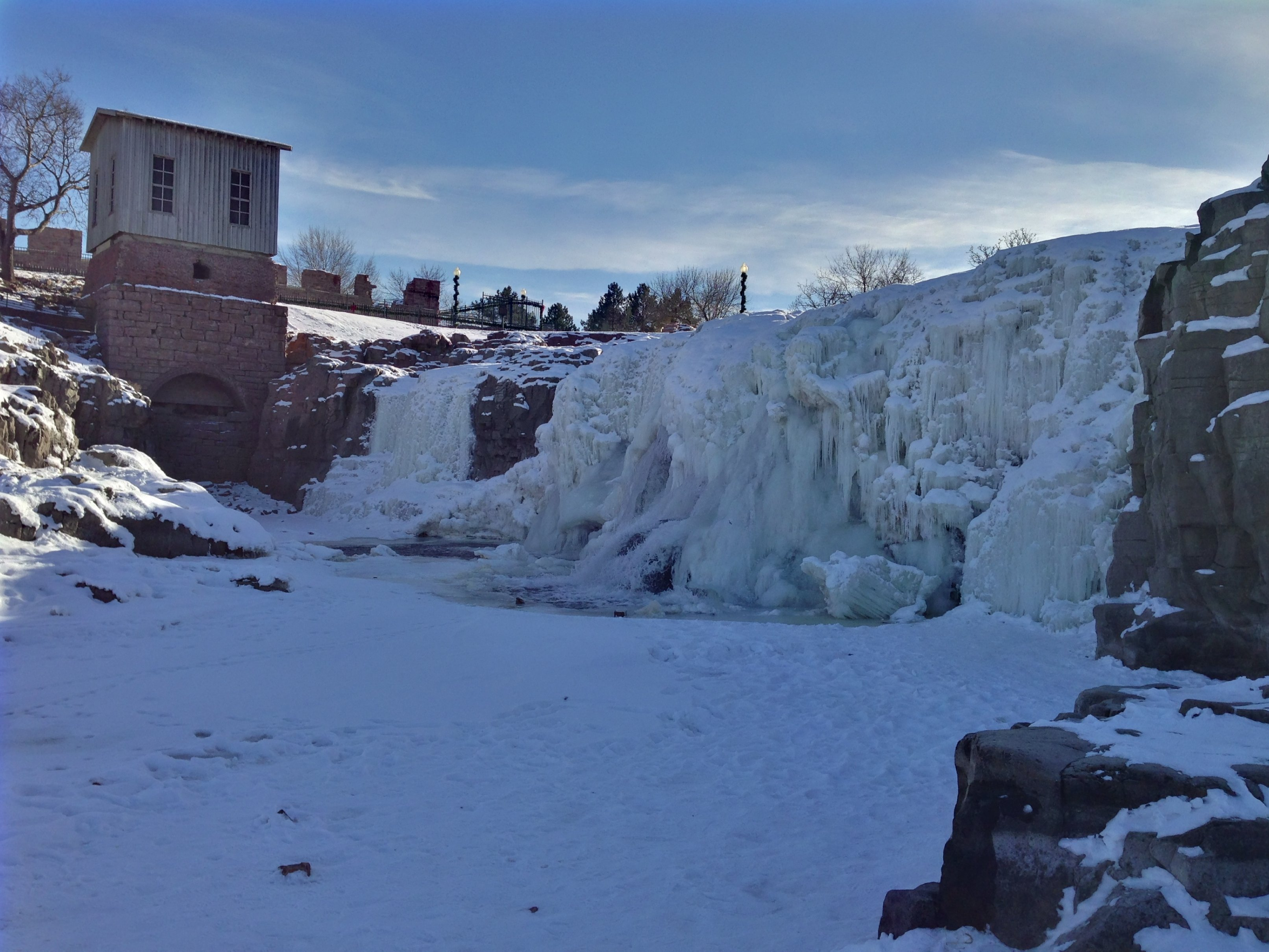 The icy grip of winter on the Falls of the Big Sioux River at Falls Park. Oh and I discovered how stupid I can be sometimes when it comes to getting a good shot--there's nothing like nearly destroying my iPhone and hurting my pride by slipping on the rocks as I climbed back out of the basin below the viewing platform on the west side of the falls. Can we all say "idiot?"